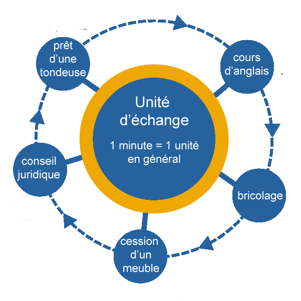 Local exchanges are measured through a certain unit, so that not all of them are considered equivalent to each other; this is how the differentiation of what is exchanged for importance or price is introduced (generally, a unit of time is used: the minute, in order to measure the effort invested by each person in producing each thing exchanged or offered to exchange) ; Image author: Ninon Loire.